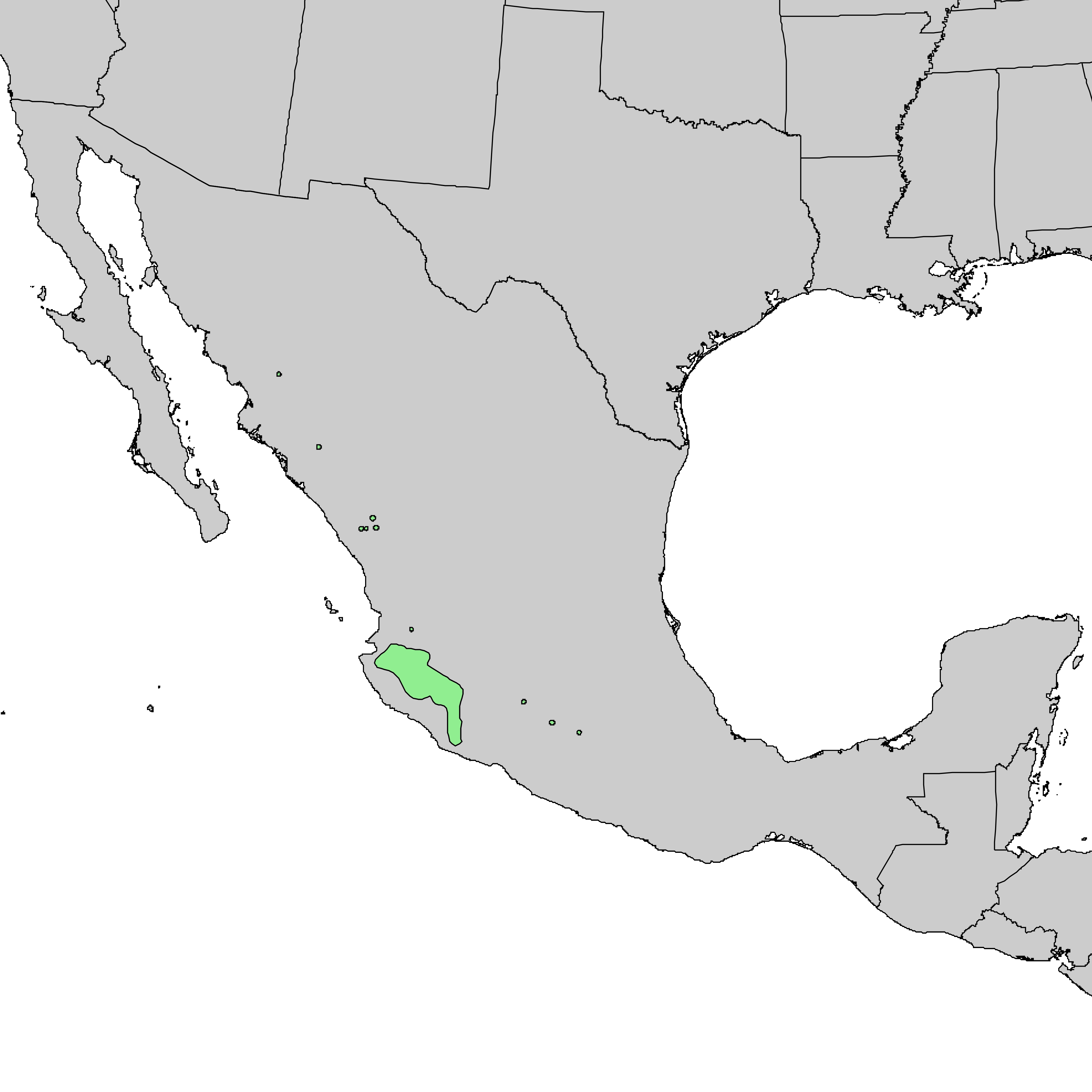 Natural distribution map for Pinus gordoniana